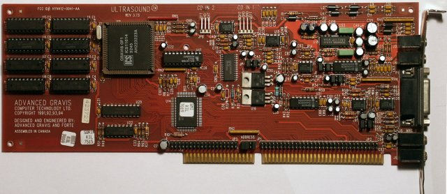 Gravis Ultrasound classic, including installed RAM.